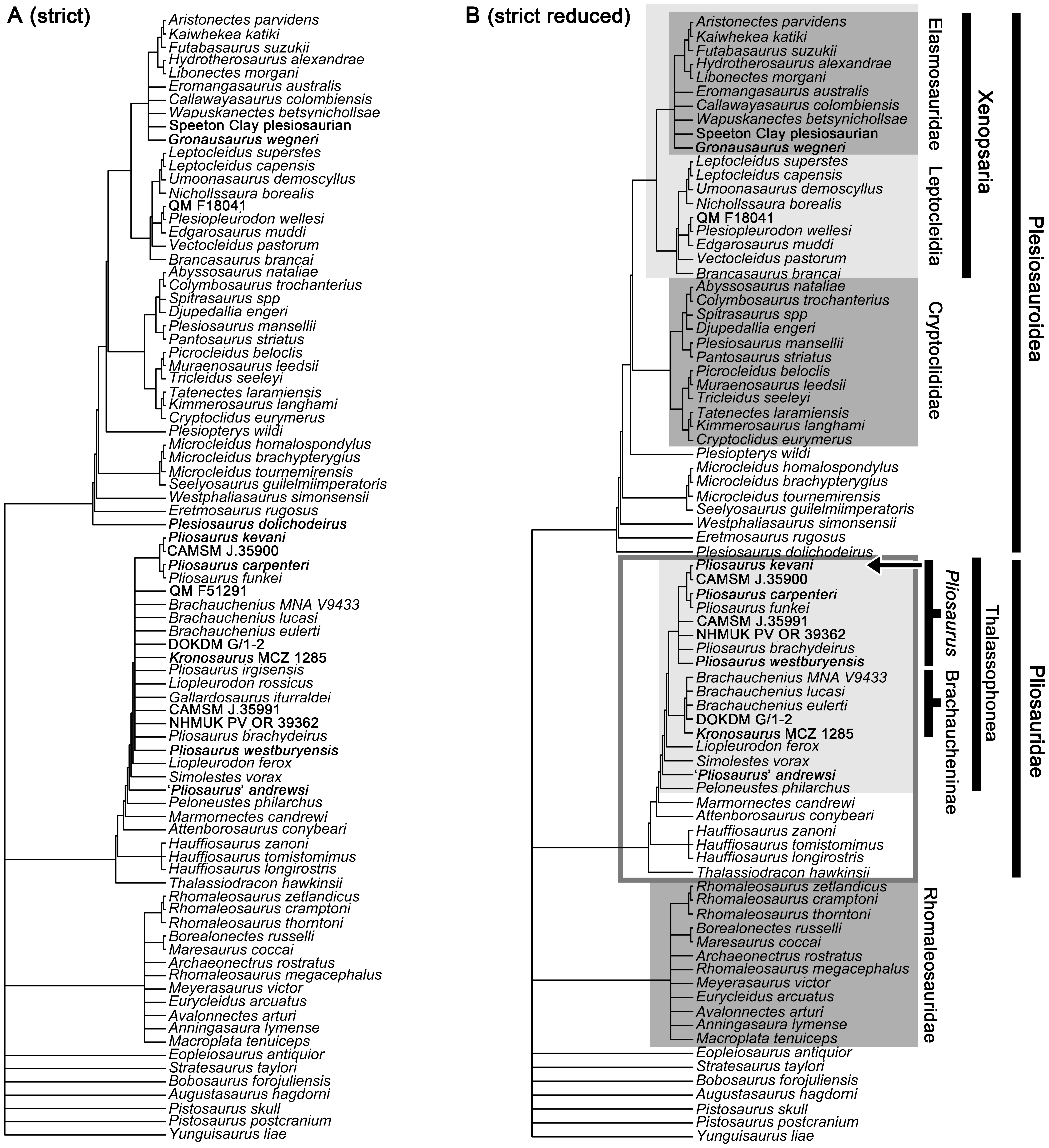 A family tree, showing the phylogenetic position of Pliosauroidea genera.